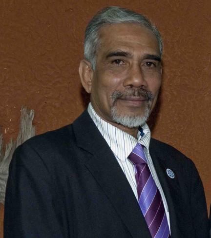 Virgílio Simith, State Secretary of Culture of Timor Leste